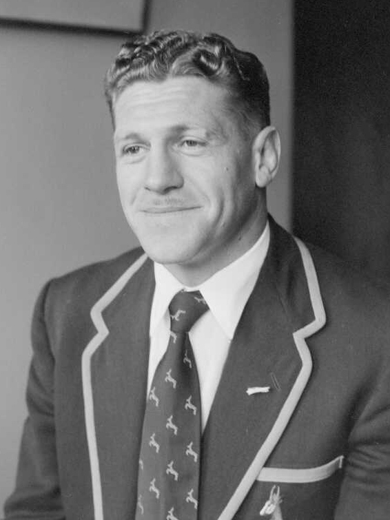 Jacobus ("Salty") du Rand (vice-captain), lock, Springbok rugby team during tour of New Zealand